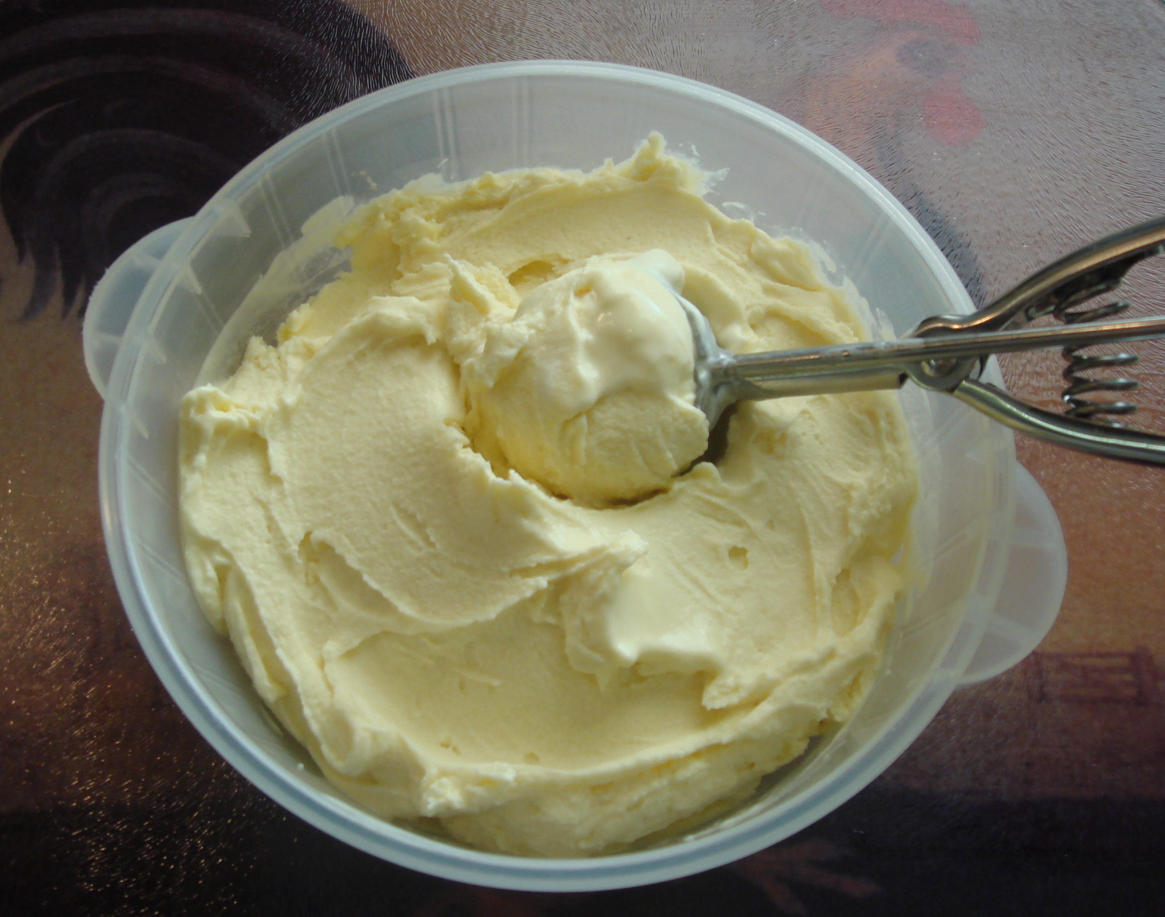 White mocha (coffee) ice cream and ice cream scoop/ice cream disher